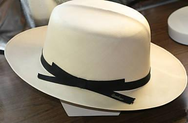 panama hat by Borsalino